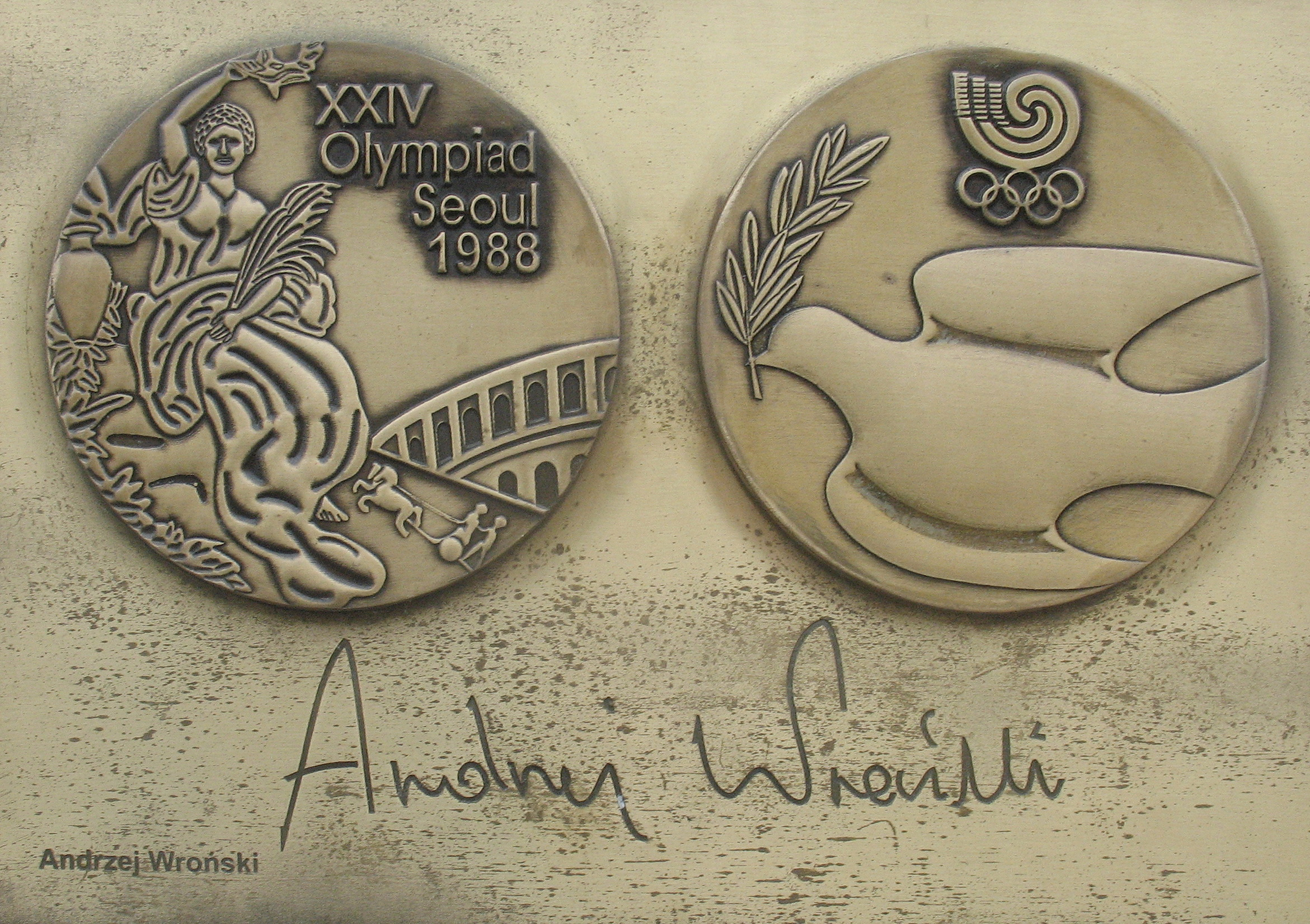 Andrzej Wronski medal and autograph in Avenue of Sport Stars Dziwnów